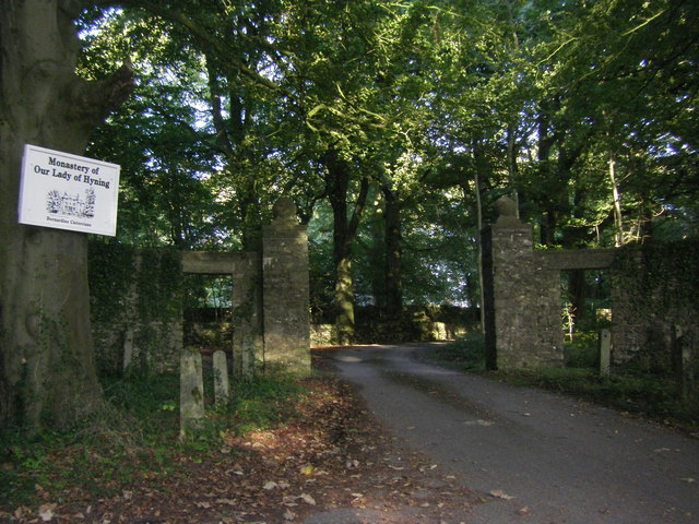 Monastery entrance Entrance to Monastery of "Our Lady of Hyning".